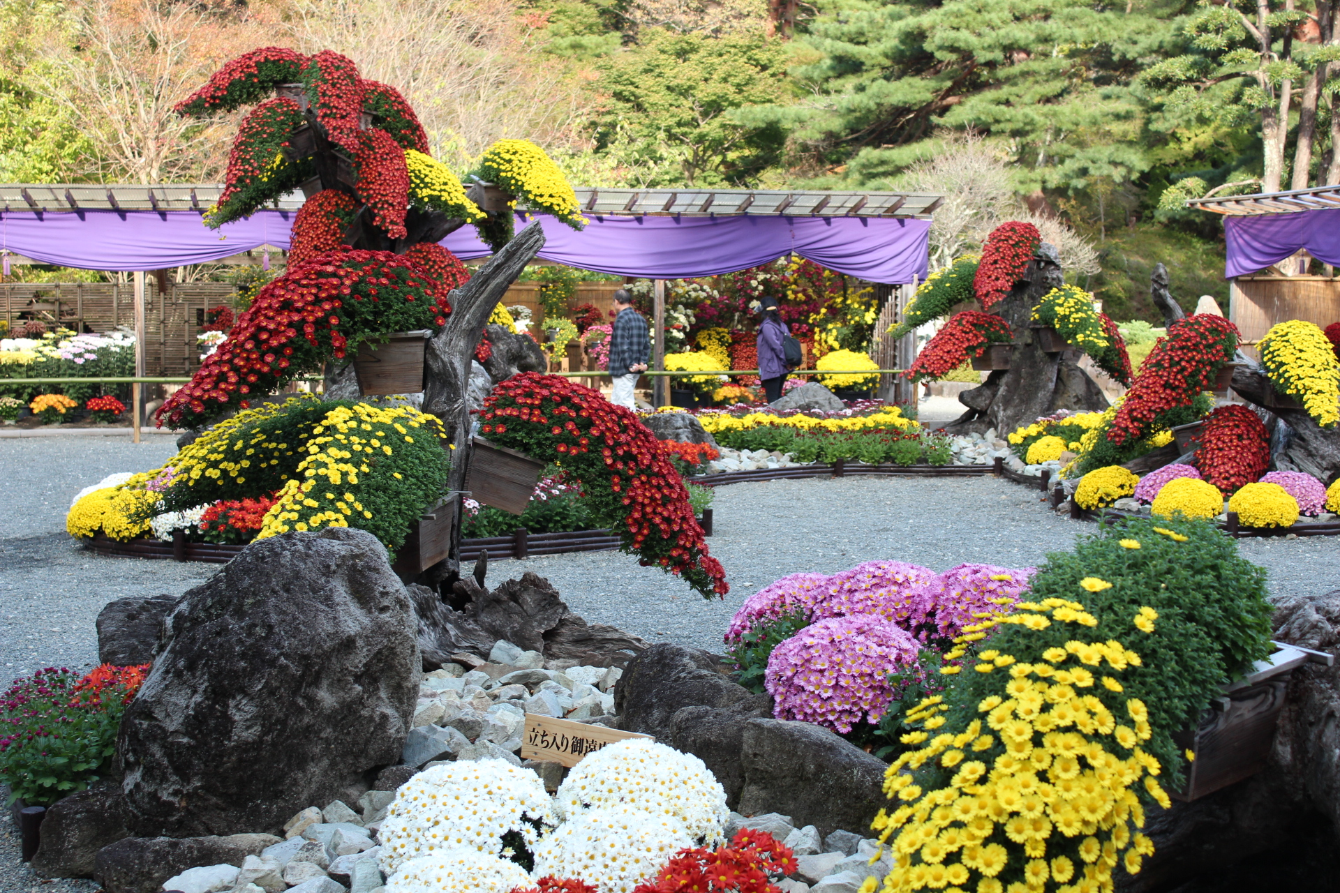 View of Kiku Festival (Florists' Daisy Festival) in Nijinosato.